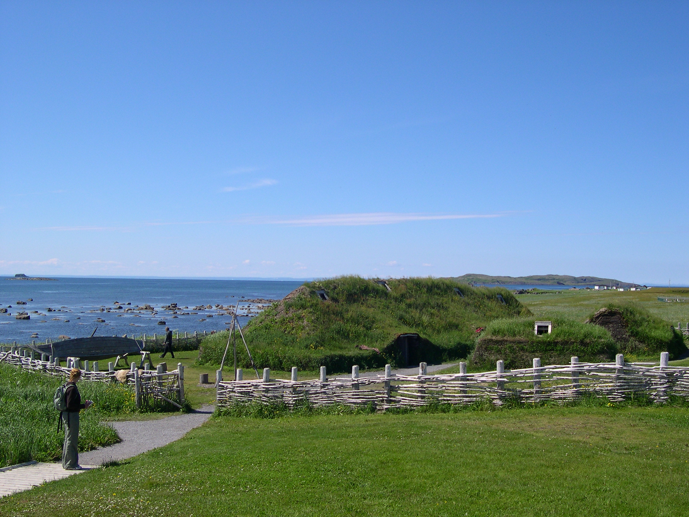 Authentic Viking recreation, Newfoundland, CanadaJuly 17 - 30, 2003